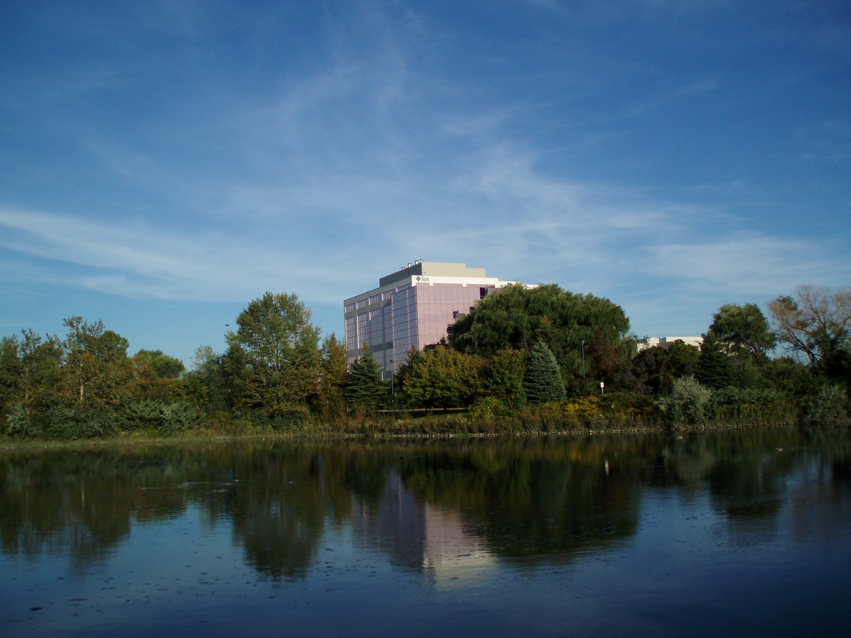 Sun Microsystems of Canada in Markham